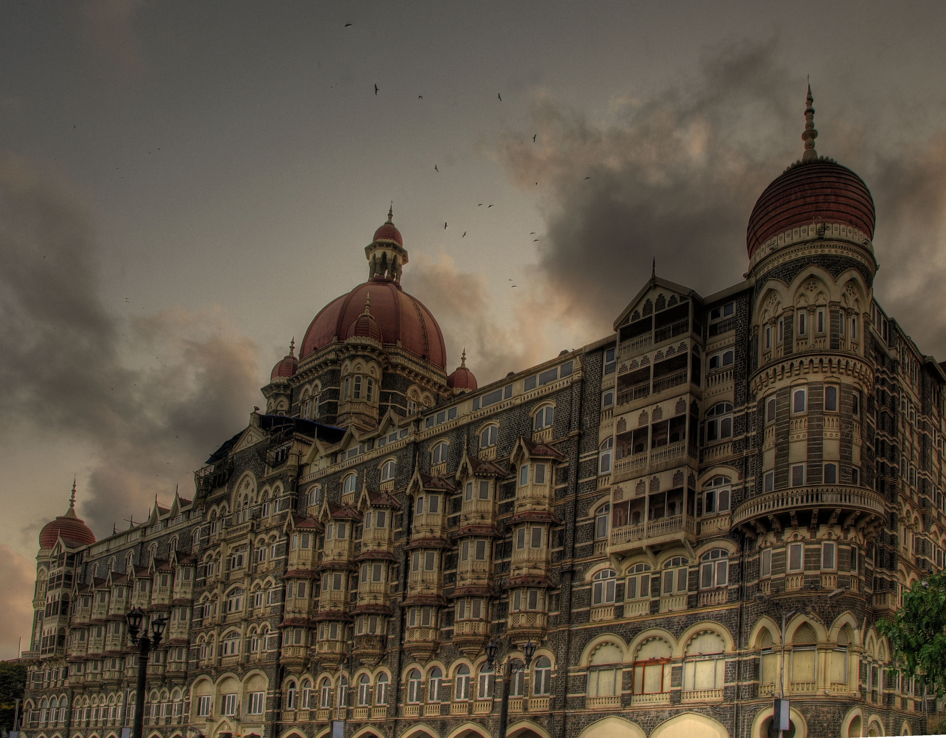 Taj Mahal Palace at Colaba, Mumbai Taj Mahal Palace & Tower Was under attack during the 2008 November Mumbai terror attacks